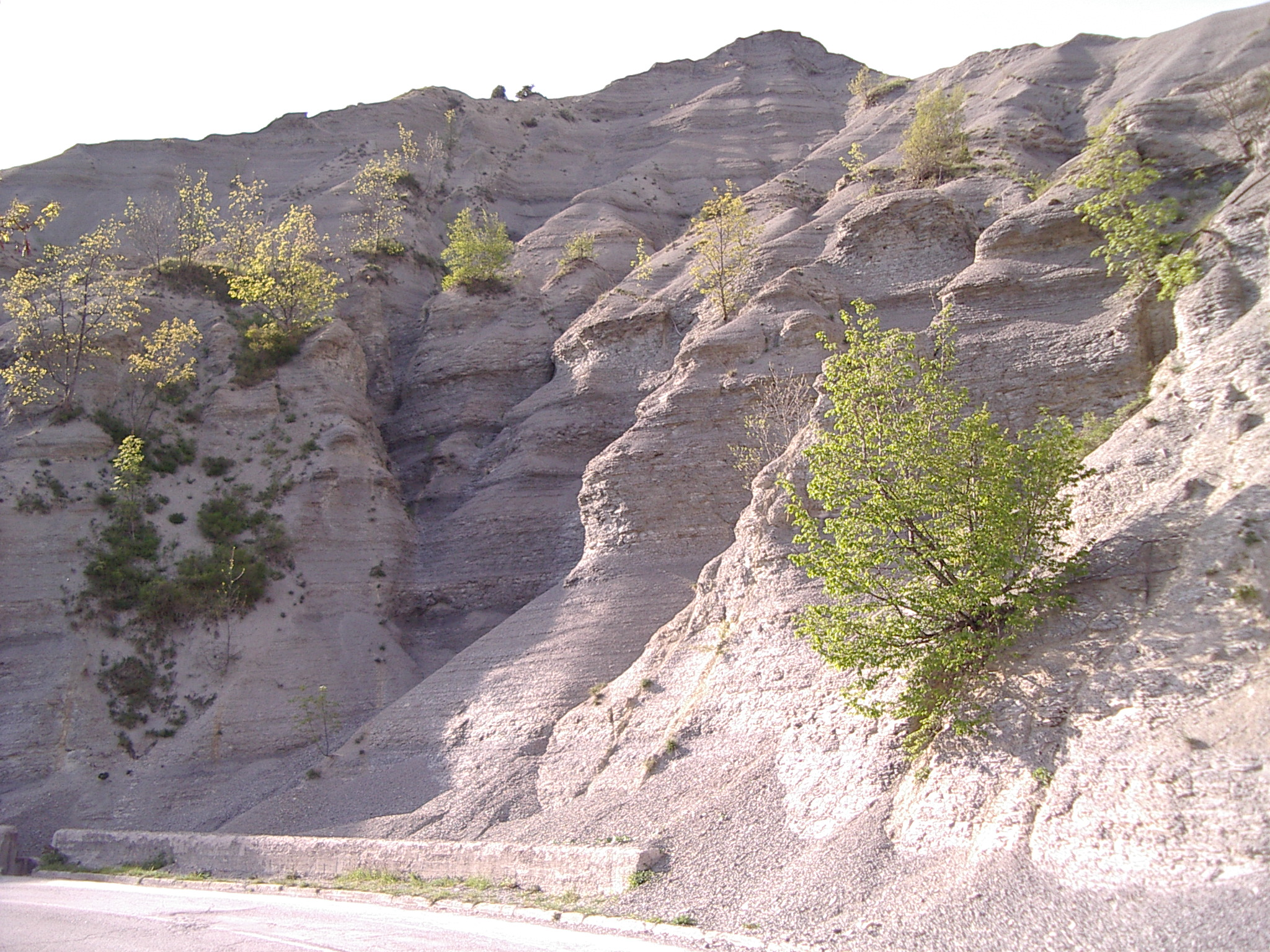 Calanques des marnes de Verghereto (Le Balze)